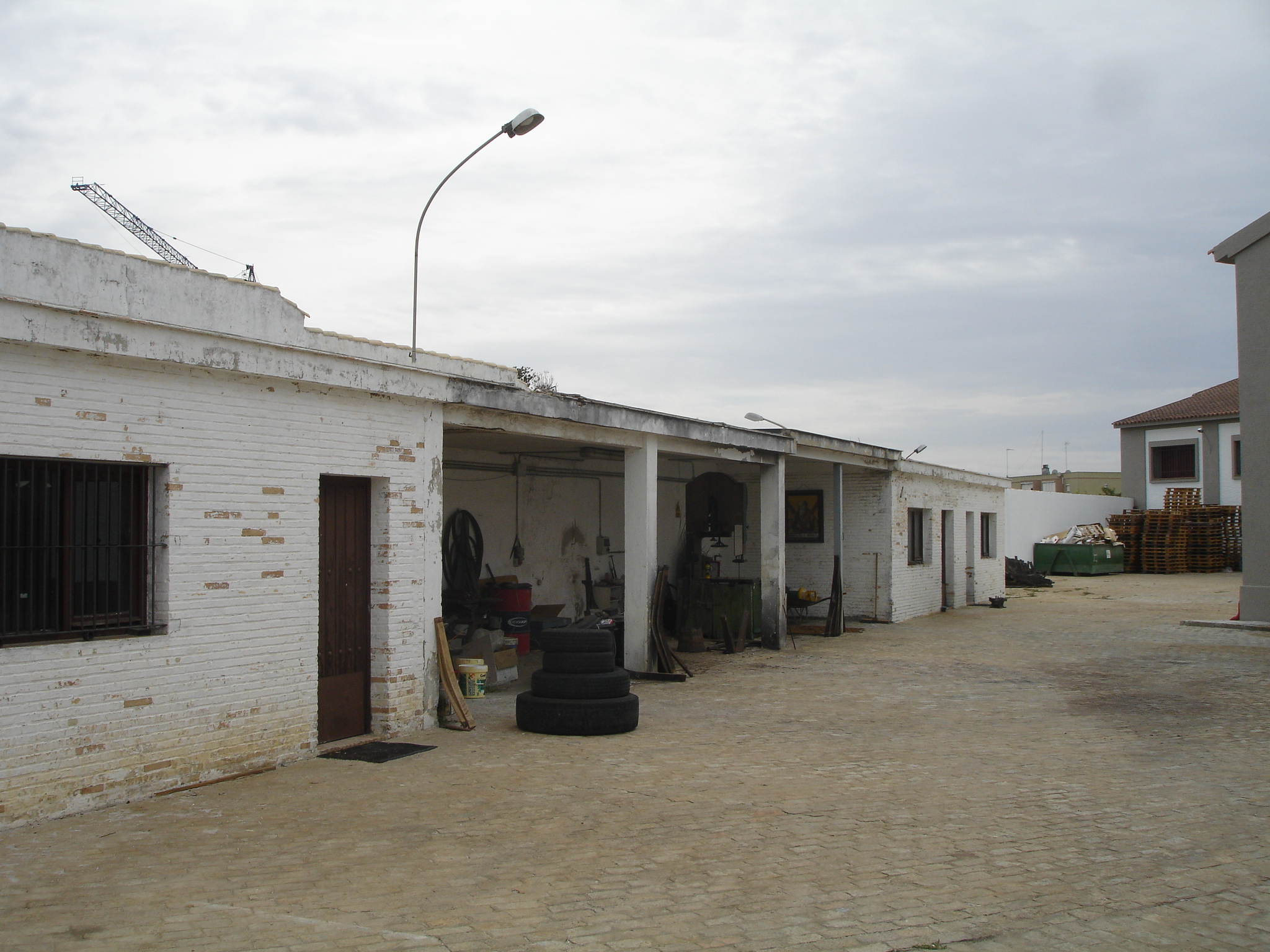 Valdivia in Jerez, Andalusia (Spain). At the end of the picture there is aframe of Saint Andrew, saint of the barrel makers